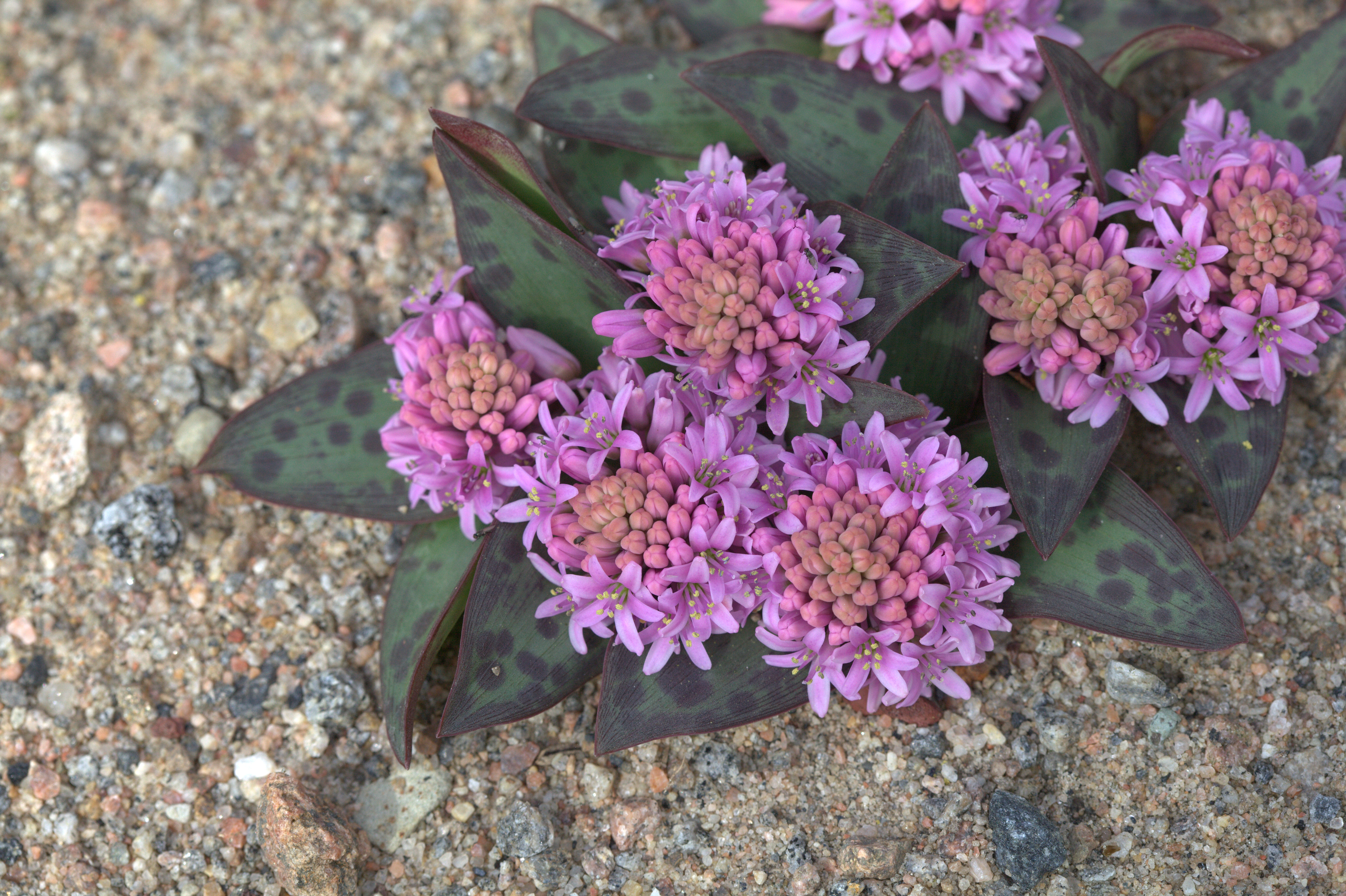 Photo taken at Gothenburg botanical garden. Specimen id: 1997-379 s/p W Seeds and plants collected in 1997 from the wild (Lesotho97).